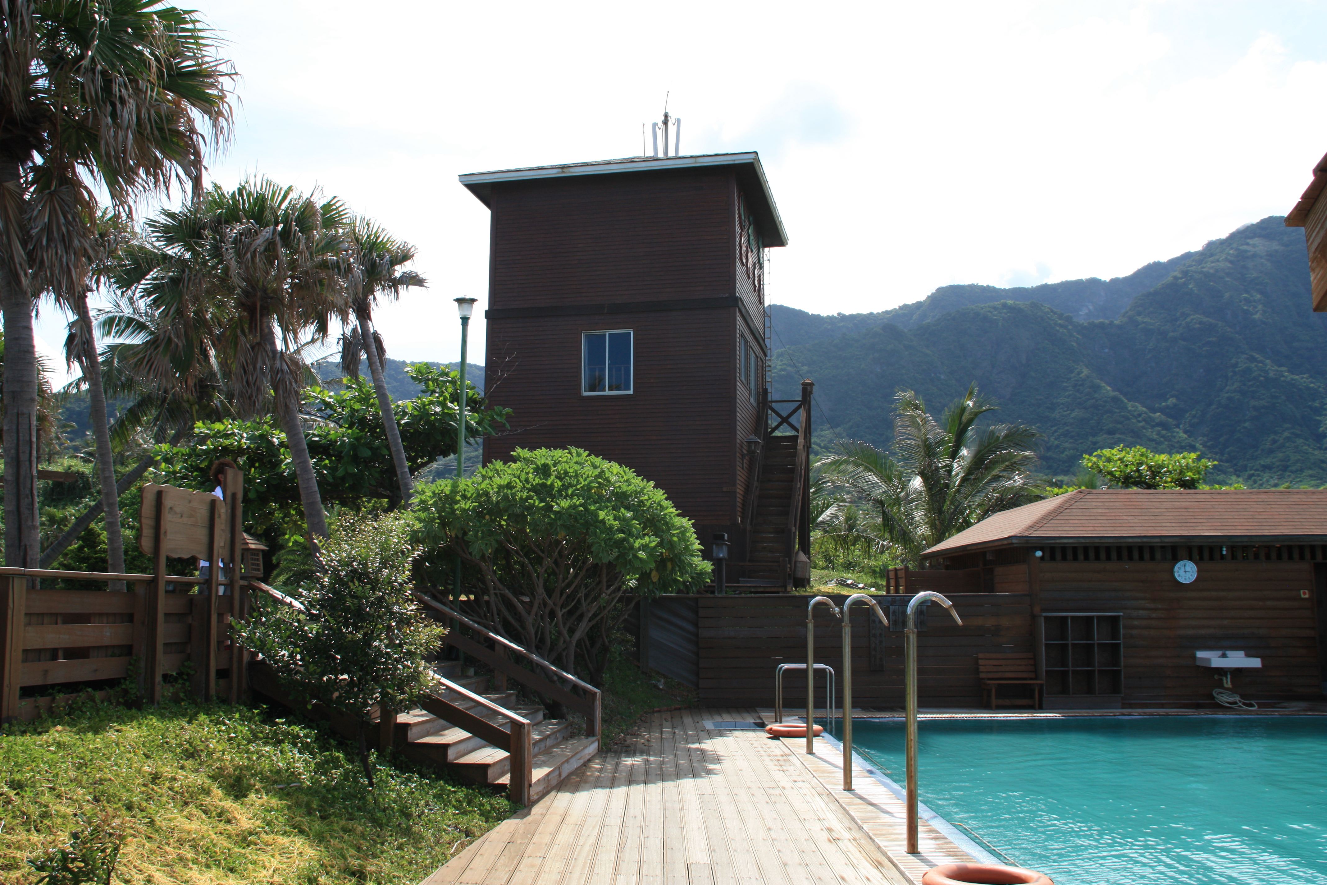 Taitung CountyChenggong TownshipHéPíng Rd (HWY 11)Hotel at east coast